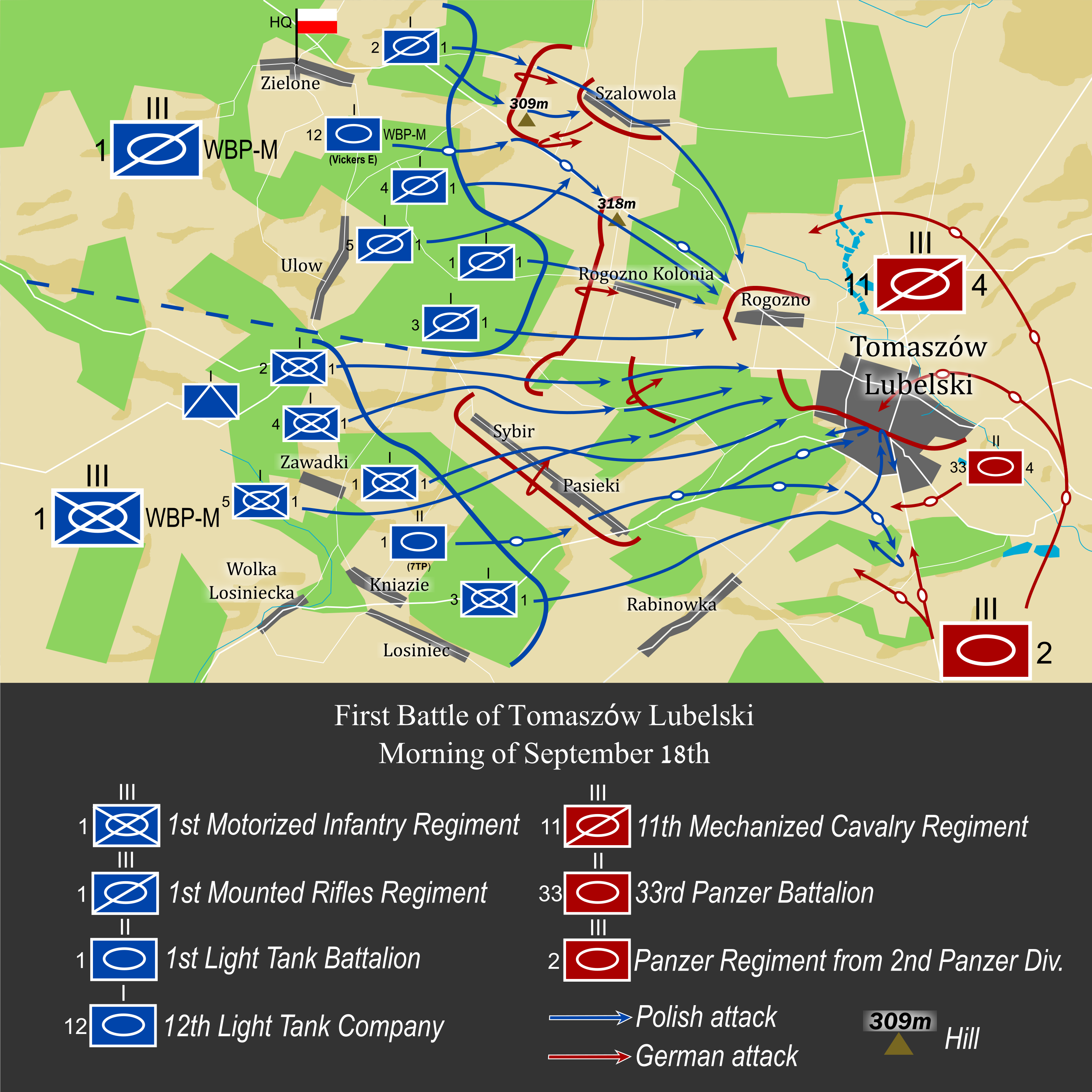 Map of the first assault on Tomaszow Lubelski spearheaded by the 1st Light Tank Battalion's 7TP tanks. Influenced by maps from Janusz Ledwoch's , Janusz Magnuski's, and Rajmund Szubanski's book: "7TP Vol. II, Tank Power 317." Also using information provided by Derela Republika: SVG version: Polish version